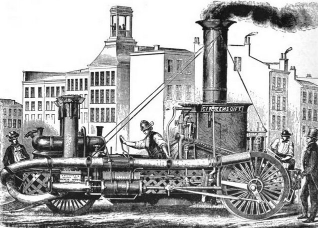 A steam fire engine called "Citizens Gift" made by A.B. Latta